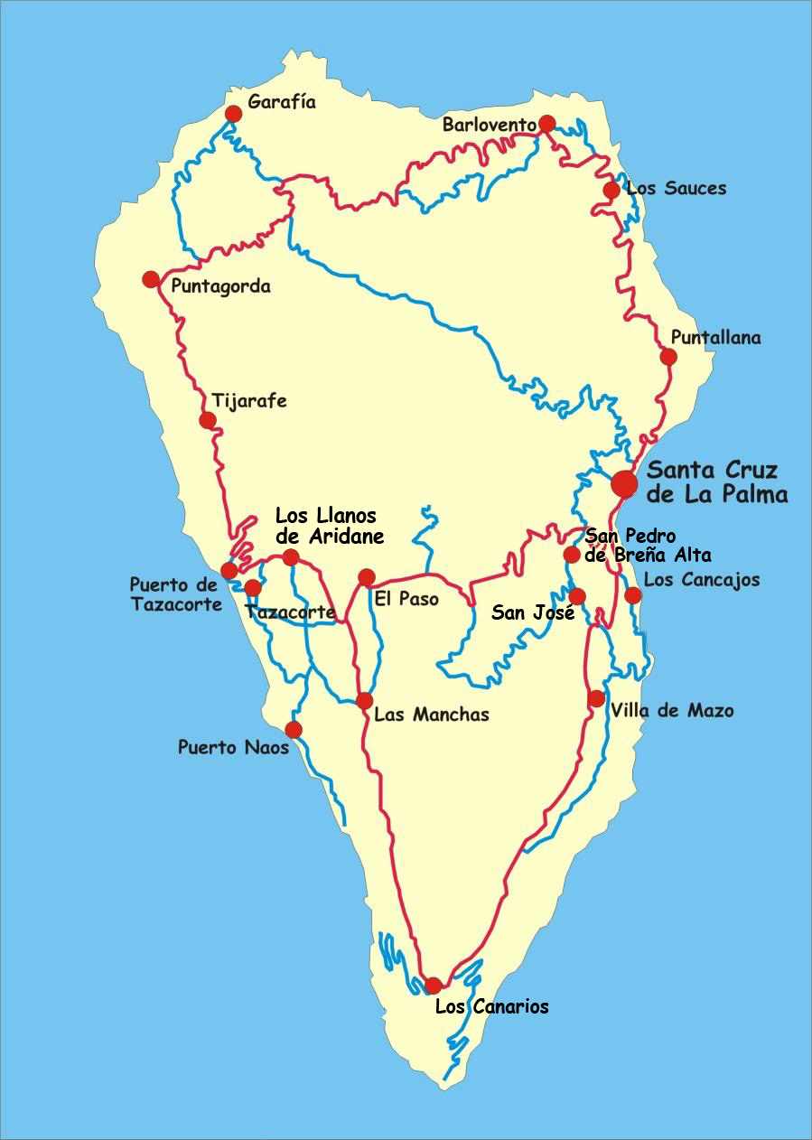 Map of La Palma